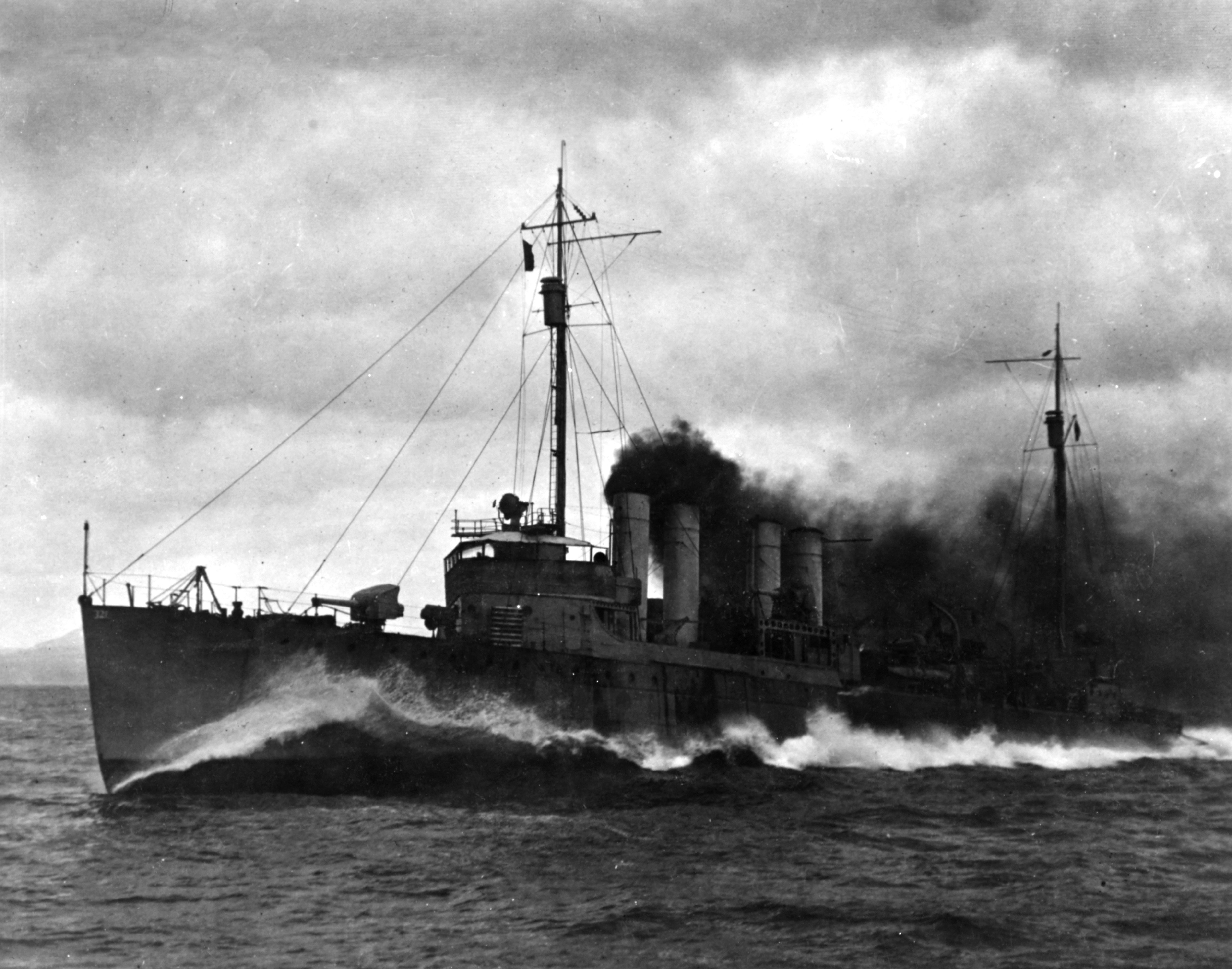 The U.S. Navy destroyer USS Palmer (DD-161) underway at high speed, probably during trials, circa in late 1918.